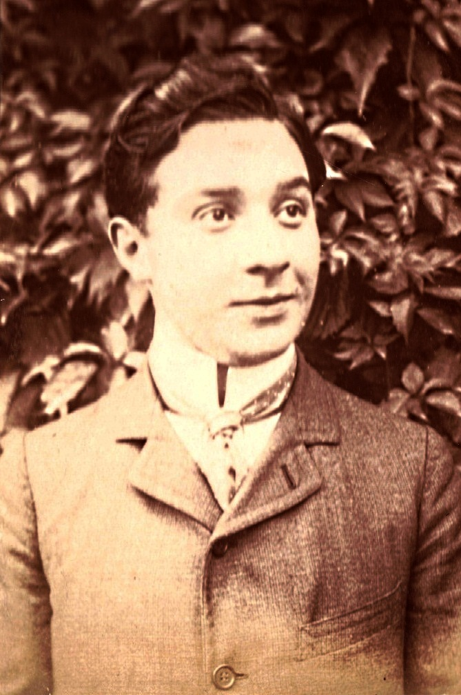 Louis Codet (1876-1914) - French writer and poet.